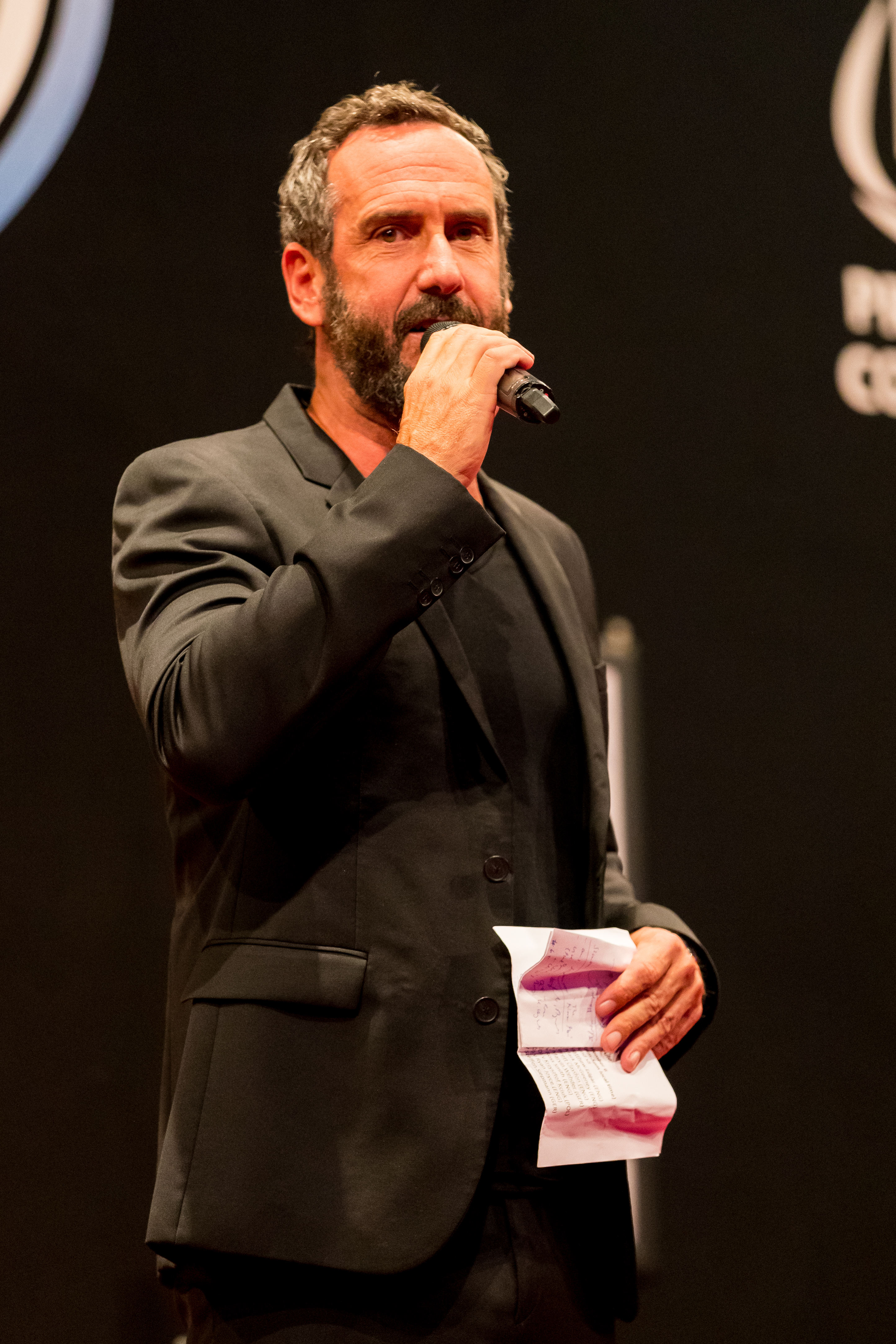 during PDC Europe Darts Matchplay at Maimarkthalle, Mannheim, Baden-Württemberg, Germany on 2019-09-06, Photo: Sven Mandel